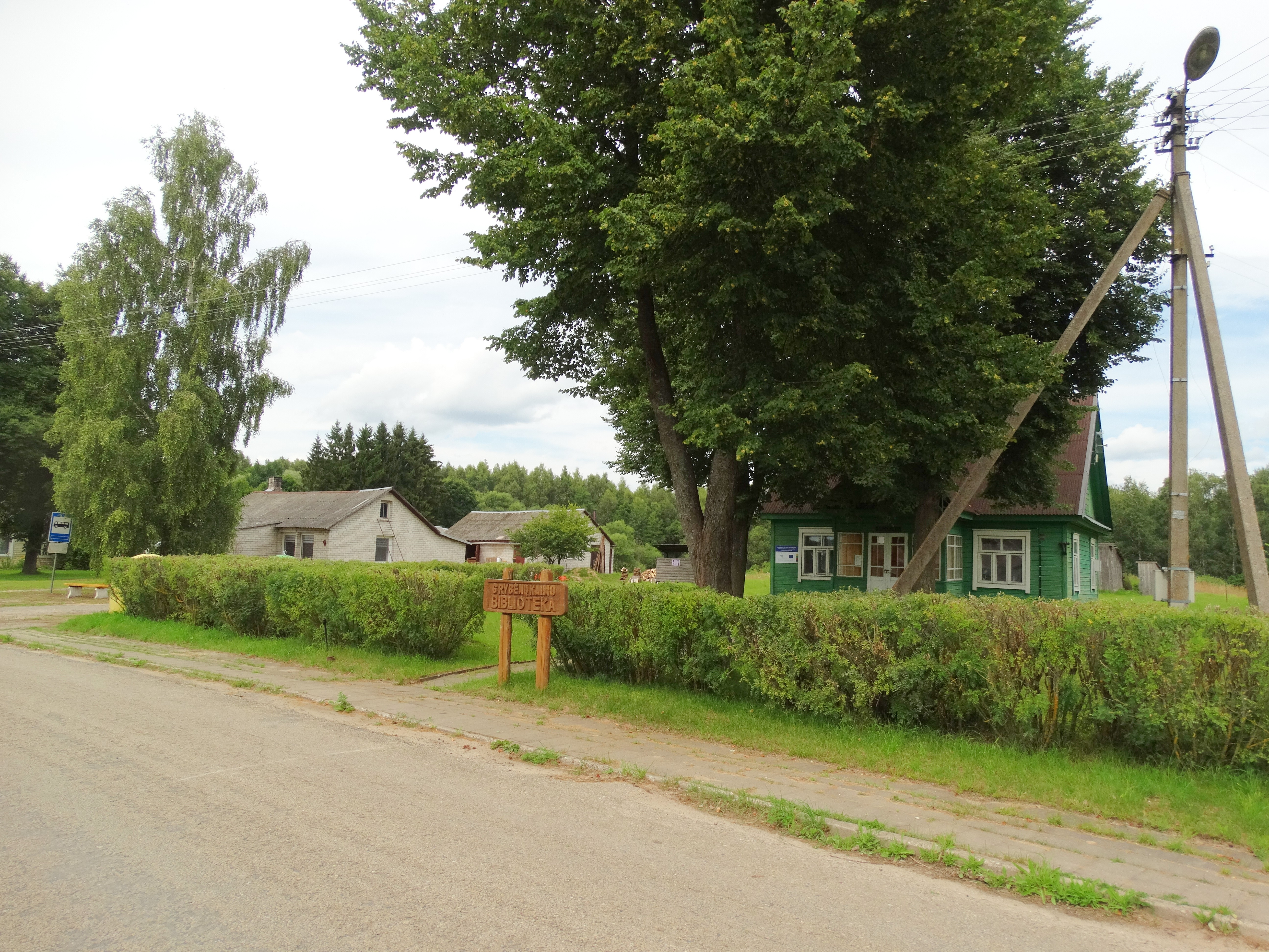 Grybėnai, Ignalina District, Lithuania